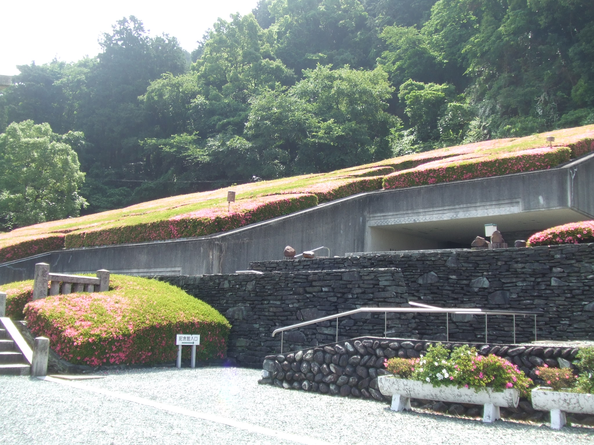 Besshi_dozan_kinenkan_museum